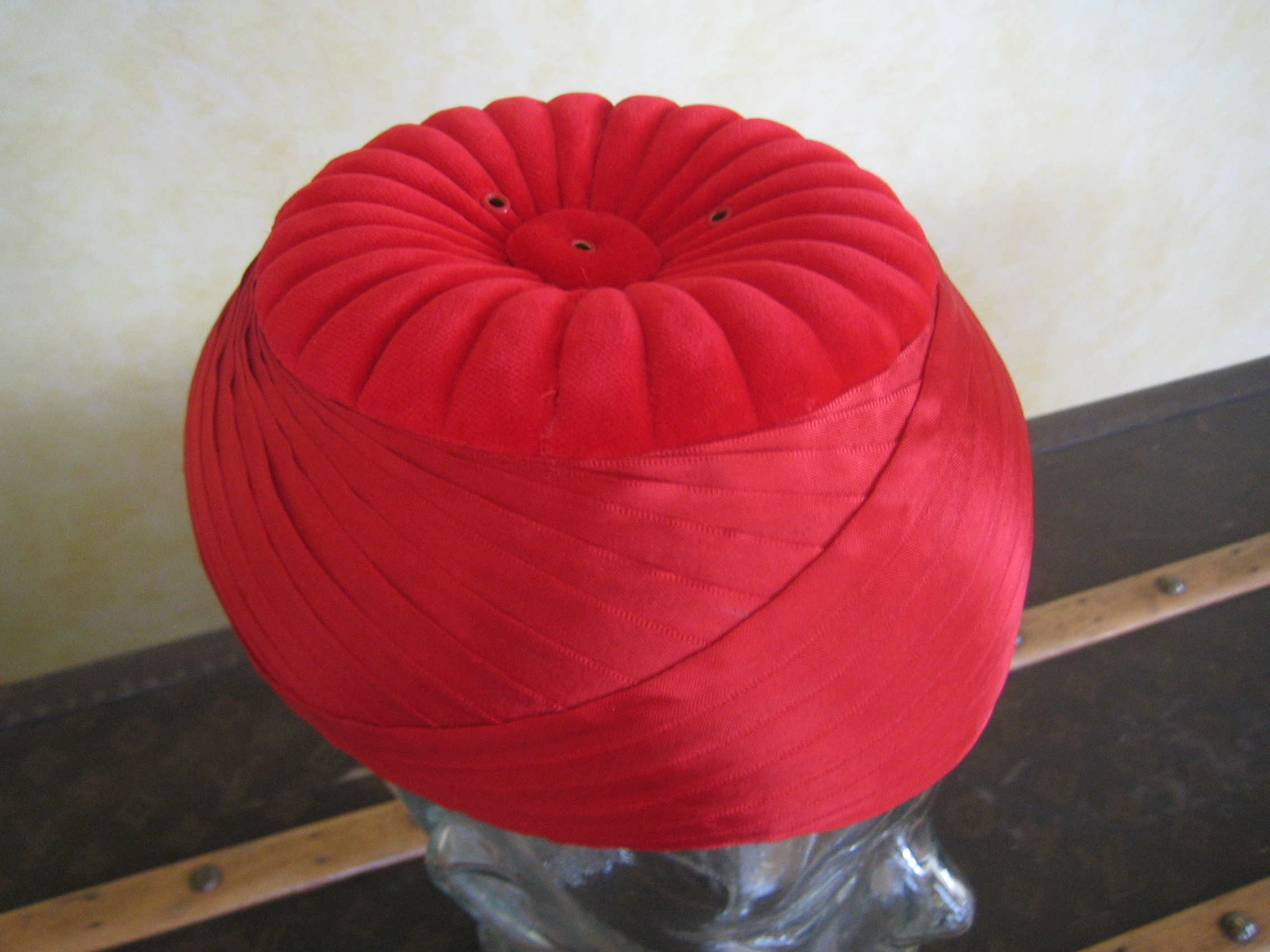 Tabieh/Tabiah headgear of the Maronite clergy